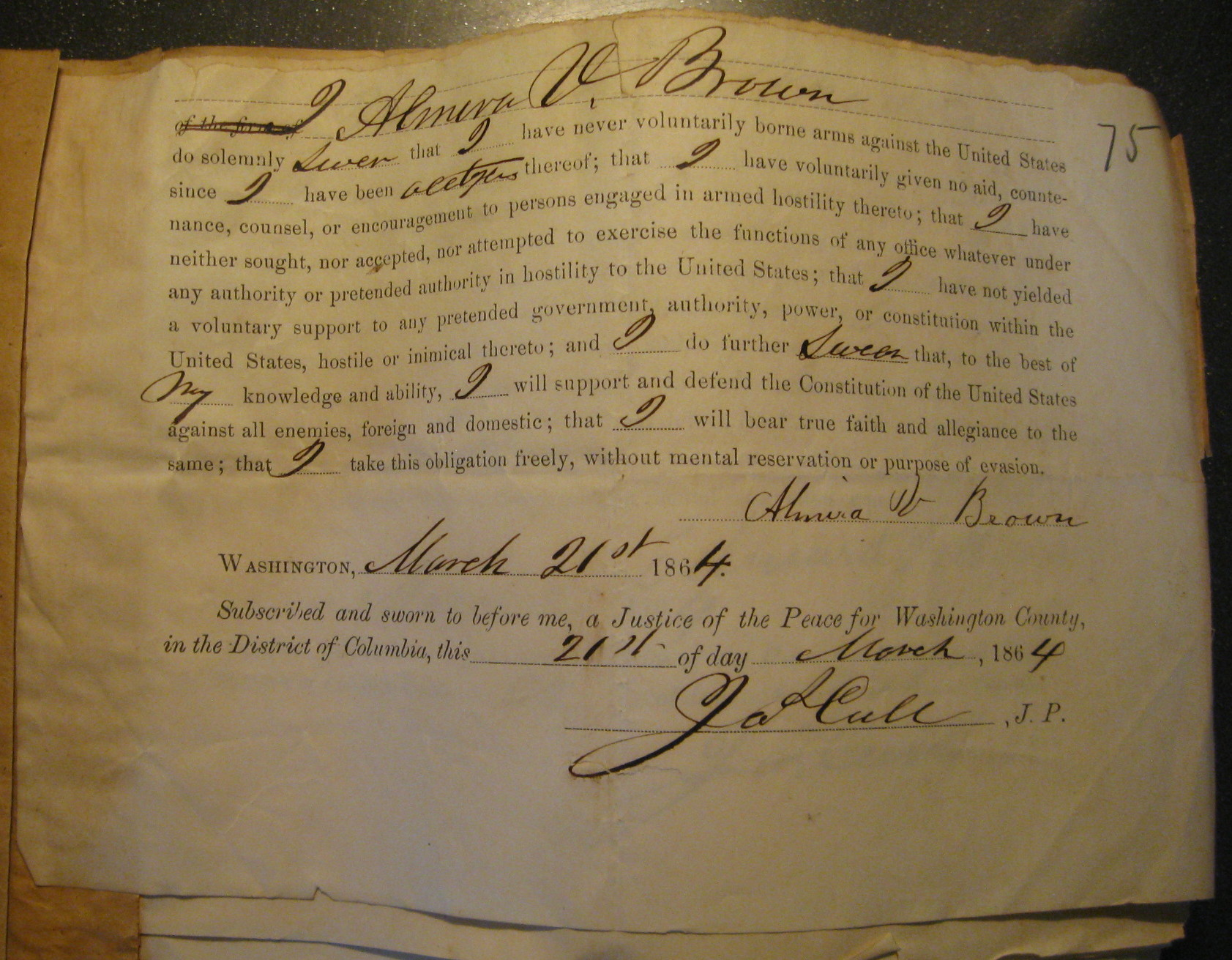 During the Civil War the United Sates federal government required all naval shipyard workers to sign a loyalty oath. This oath was signed by Almira Virginia Brown, a navy yard seamstress on 21 March 1864.